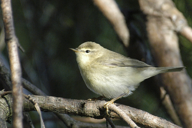 Phylloscopus trochilus from Commanster, Belgian High Ardennes .